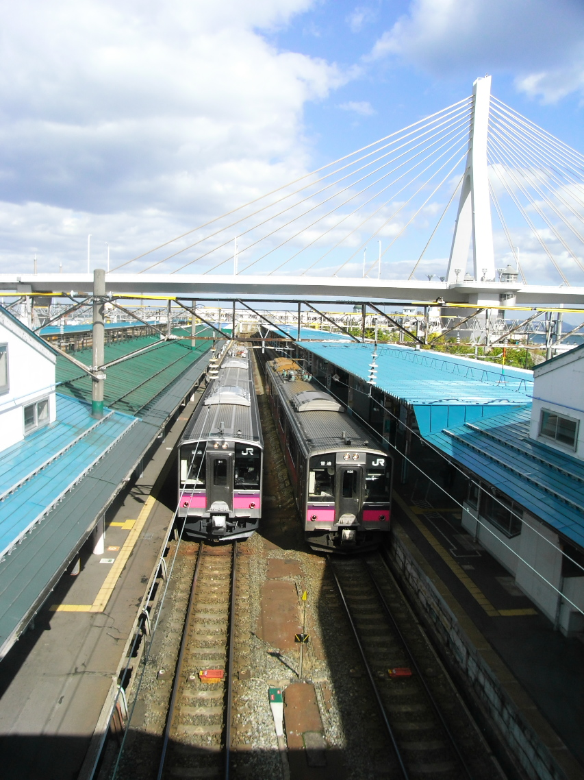 701 series EMUs at Aomori Station, 12 October 2008